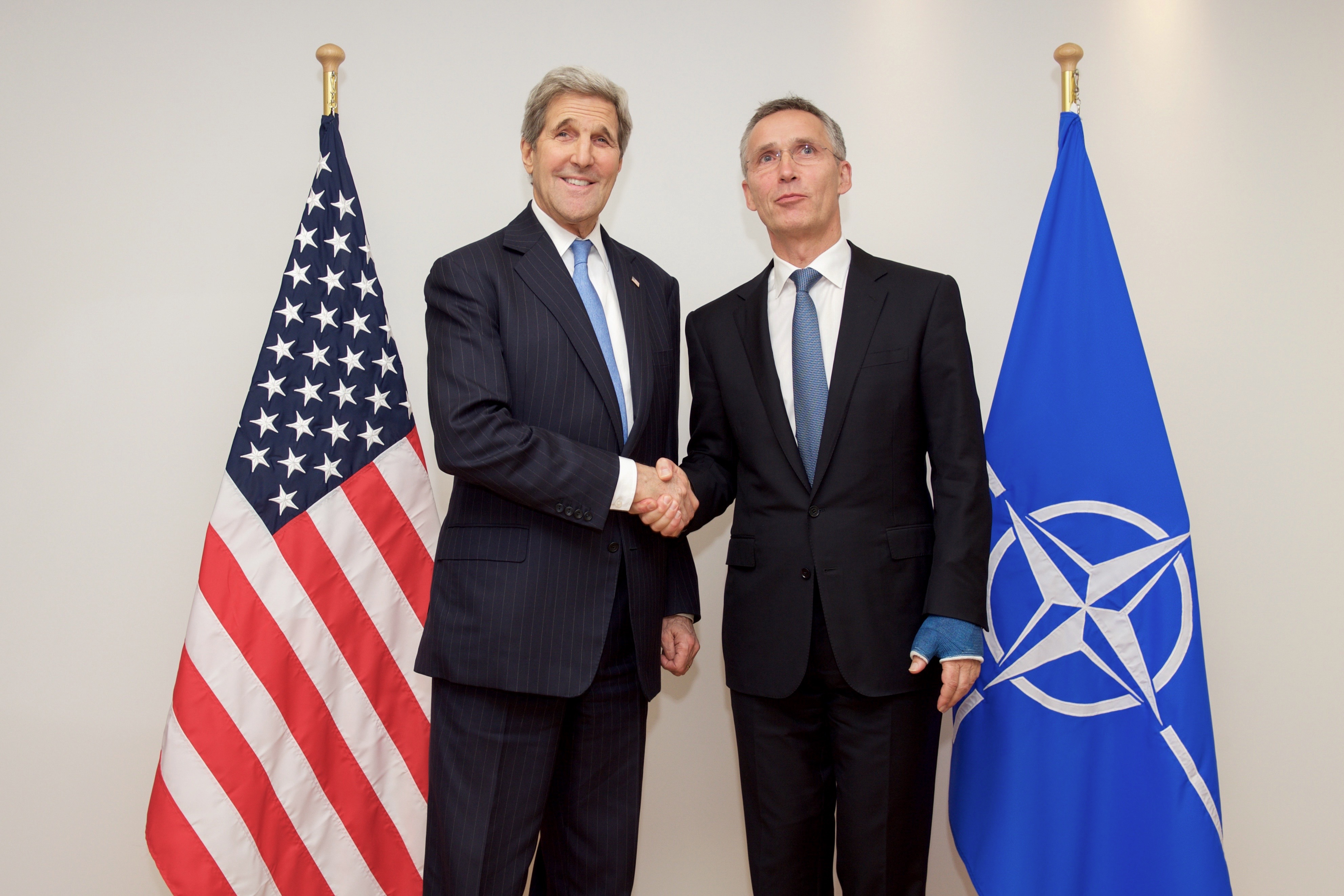 U.S. Secretary of State John Kerry and North Atlantic Treaty Organization Secretary General Jens Stoltenberg shake hands for a group of photographers at NATO Headquarters in Brussels, Belgium, on December 1, 2015, before a bilateral meeting on the sidelines of a NATO Ministerial meeting. [State Department photo/ Public Domain]